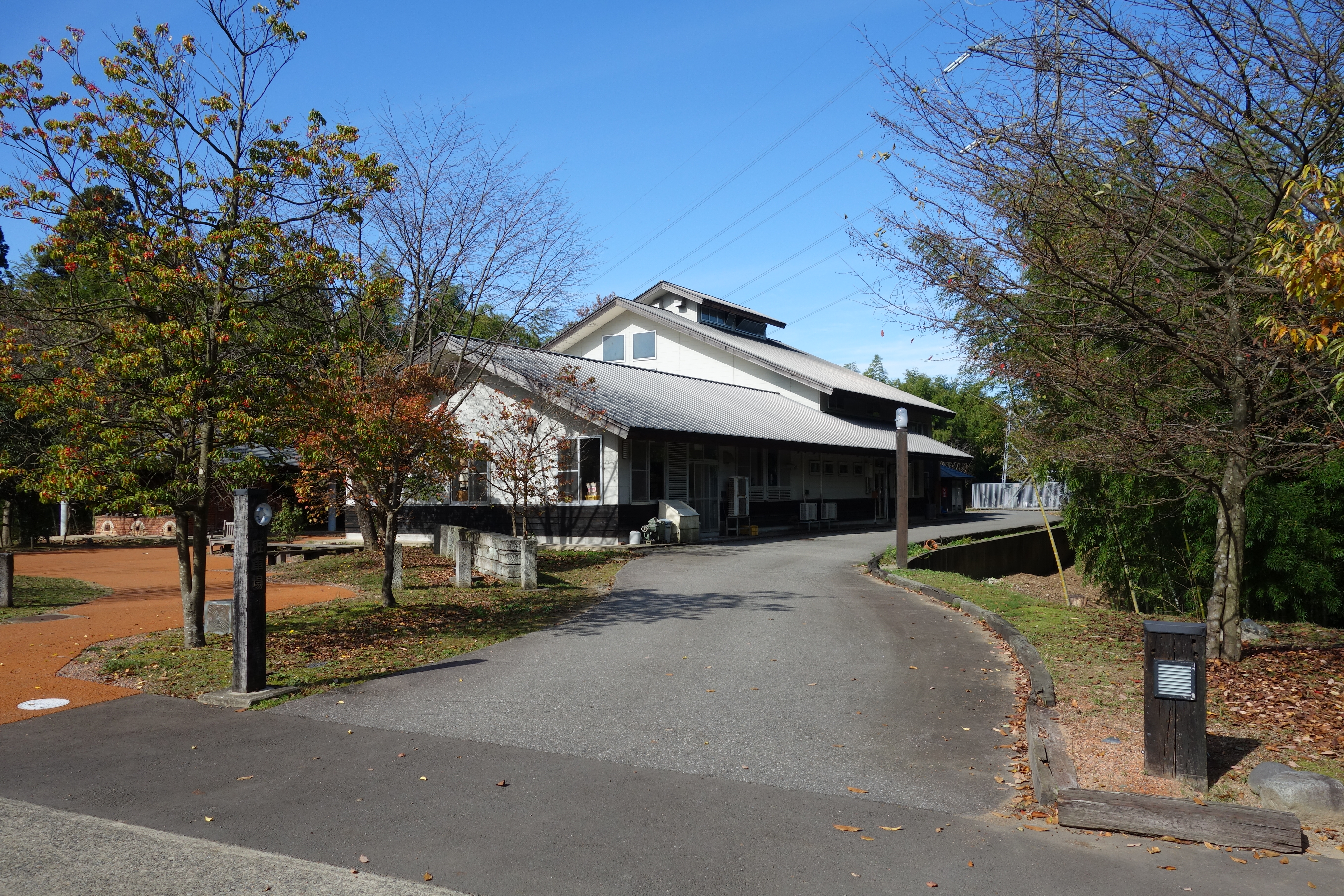 Glass atelier, Kanaz Forest of Creation (Awara-shi, Fukui Pref., Japan)